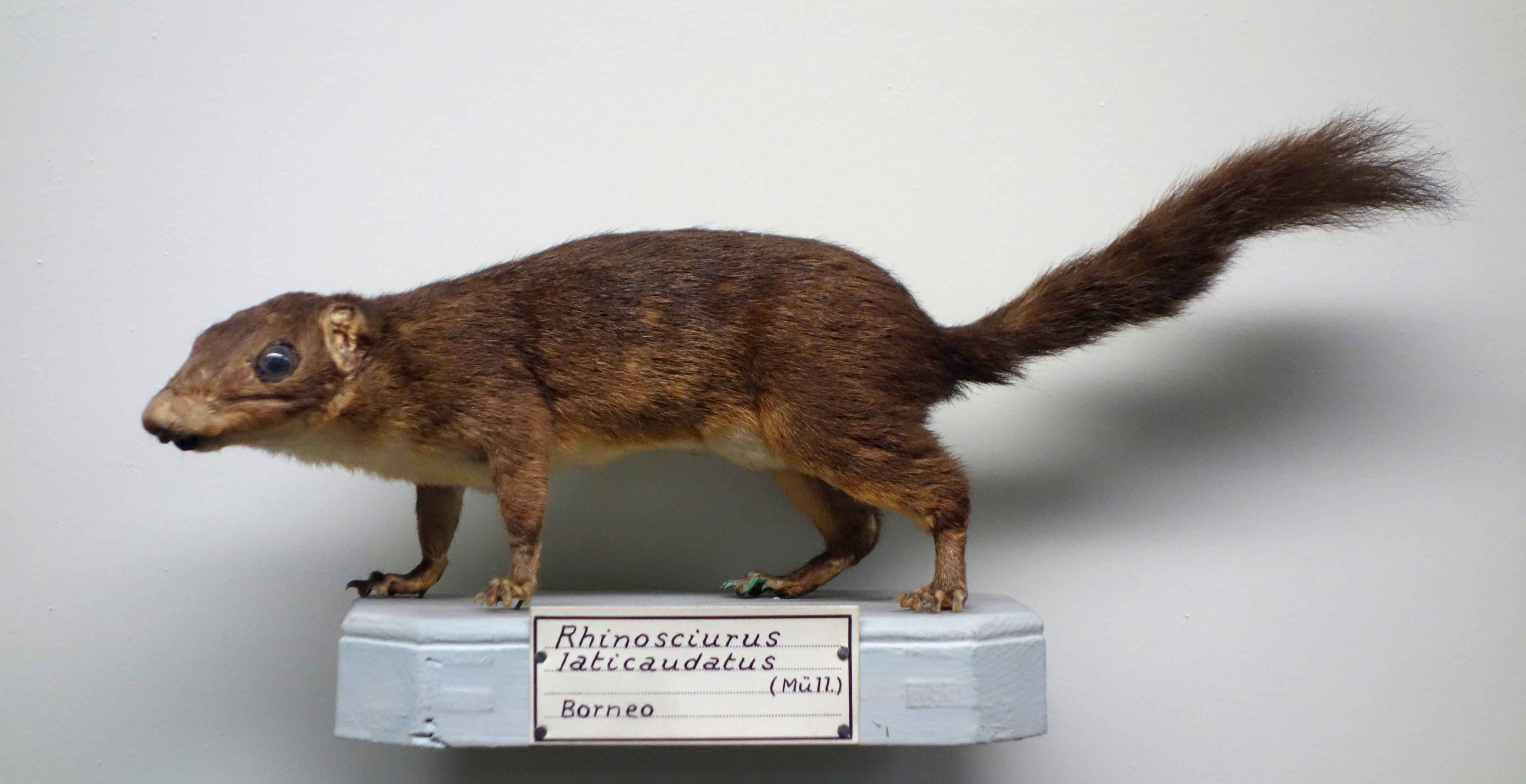 Exhibit in the Museo Civico di Storia Naturale di Genova, Via Brigata Liguria, 9, 16121, Genoa, Italy.